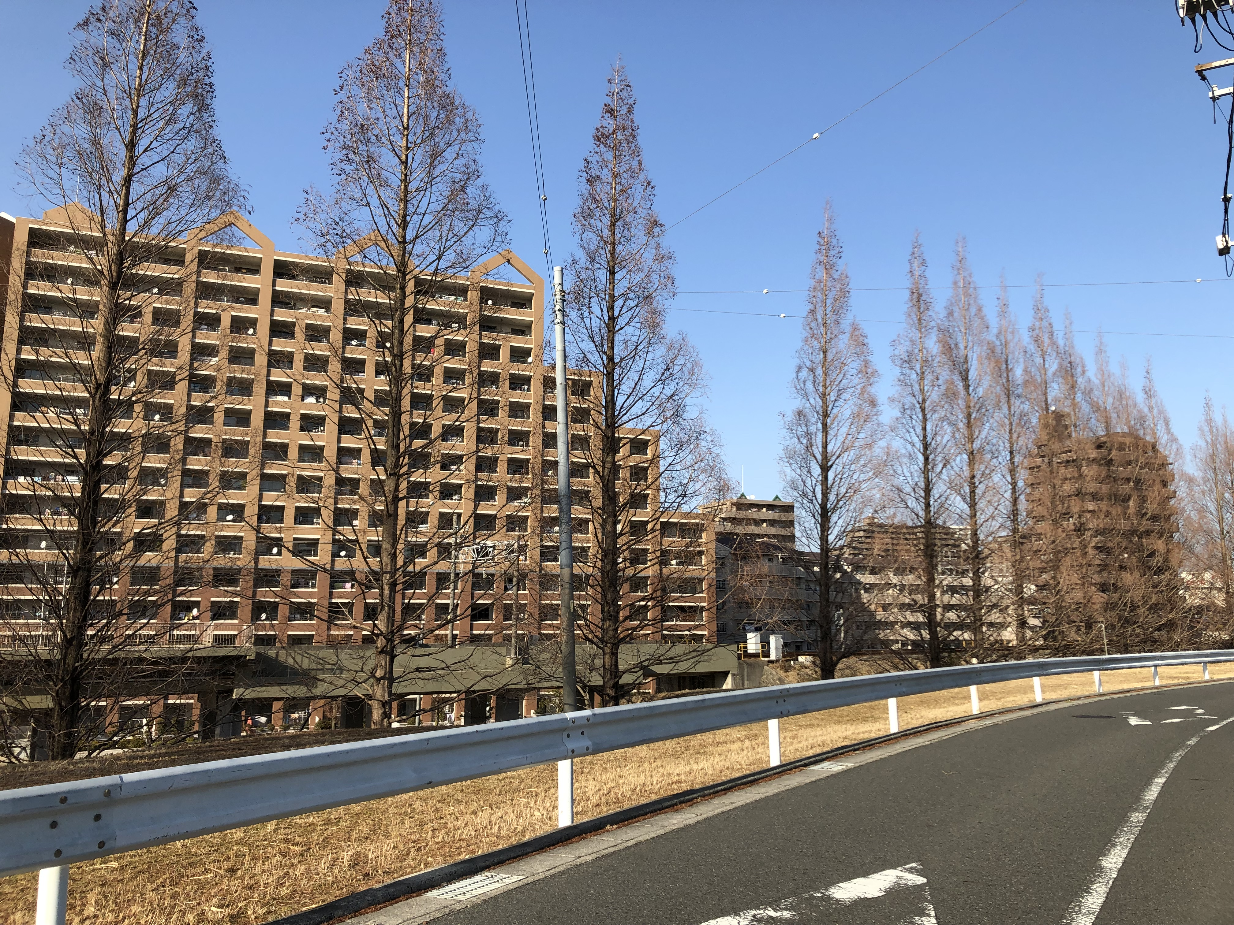 Nissin skyline02